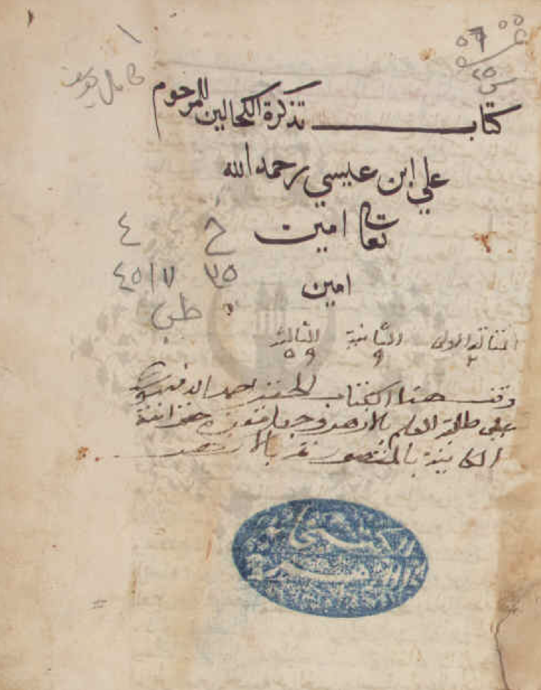 First page of an Arabic manuscript of the Tadhkirat al-Kahhalin (Arabic: تذكرة الكحالين